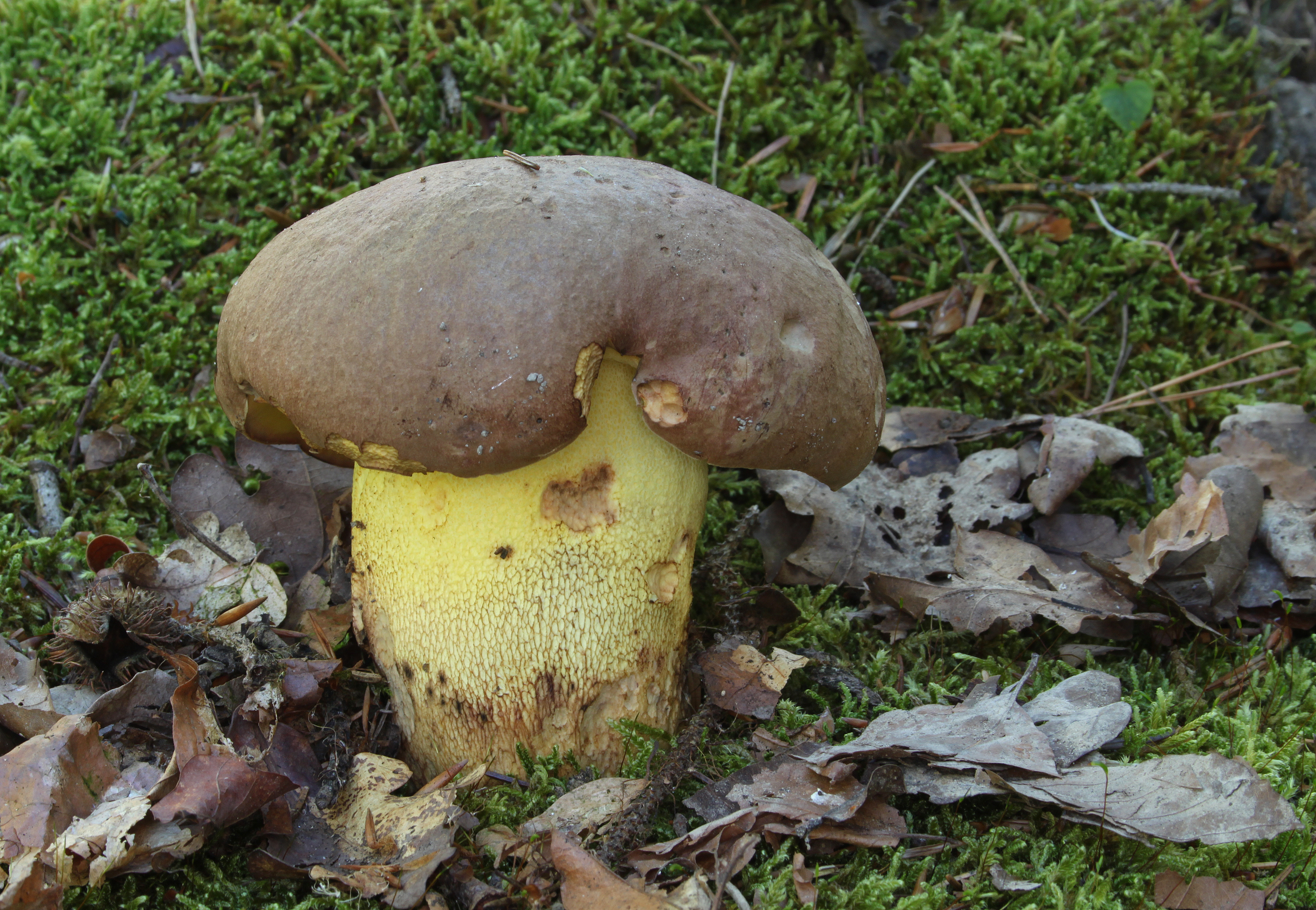 Butter Bolete, Boletus appendiculatus, Family: Boletaceae, Location: Germany, Eggingen